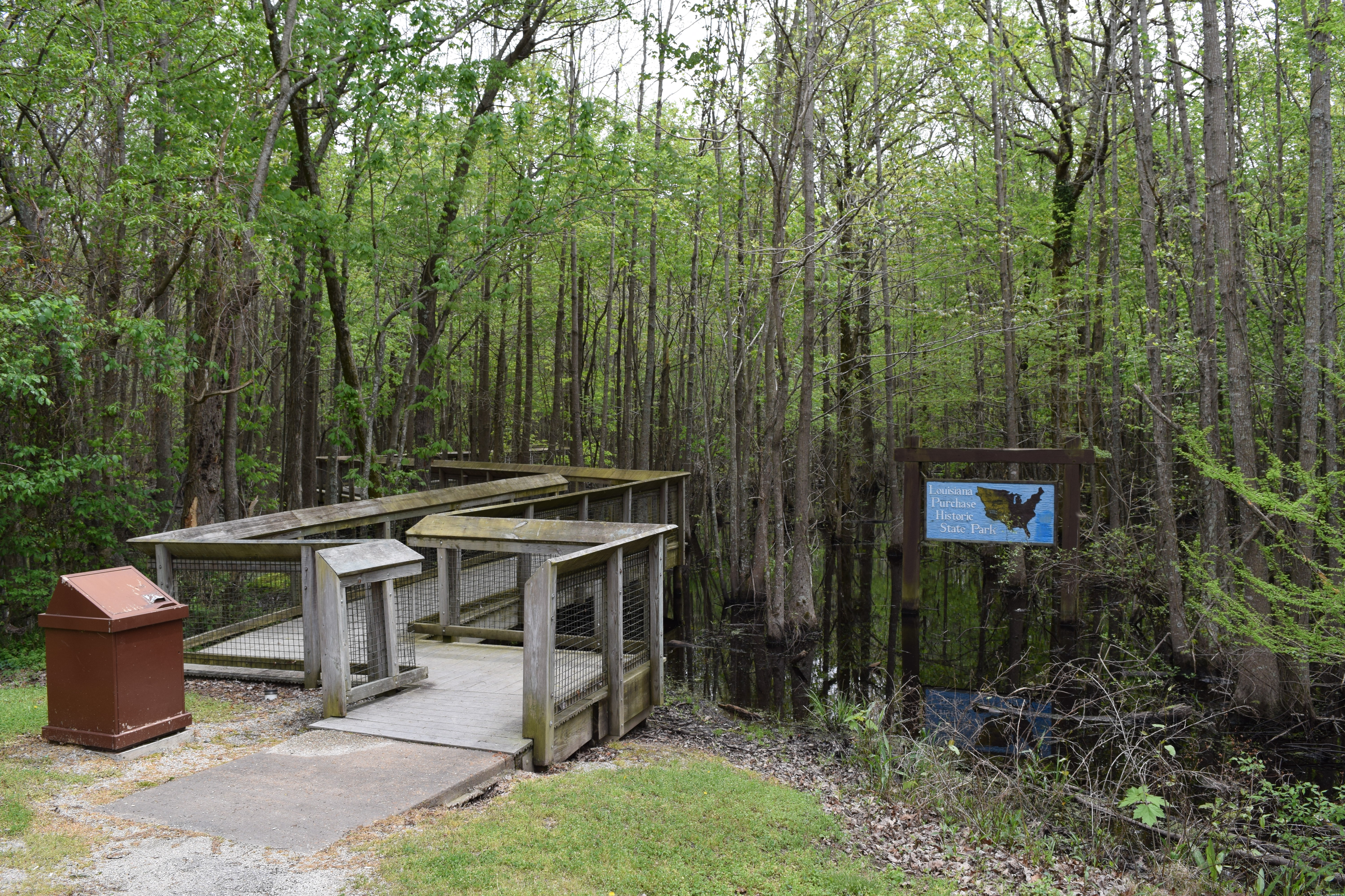 The start of the boardwalk in Louisiana Purchase State Park, Arkansas.